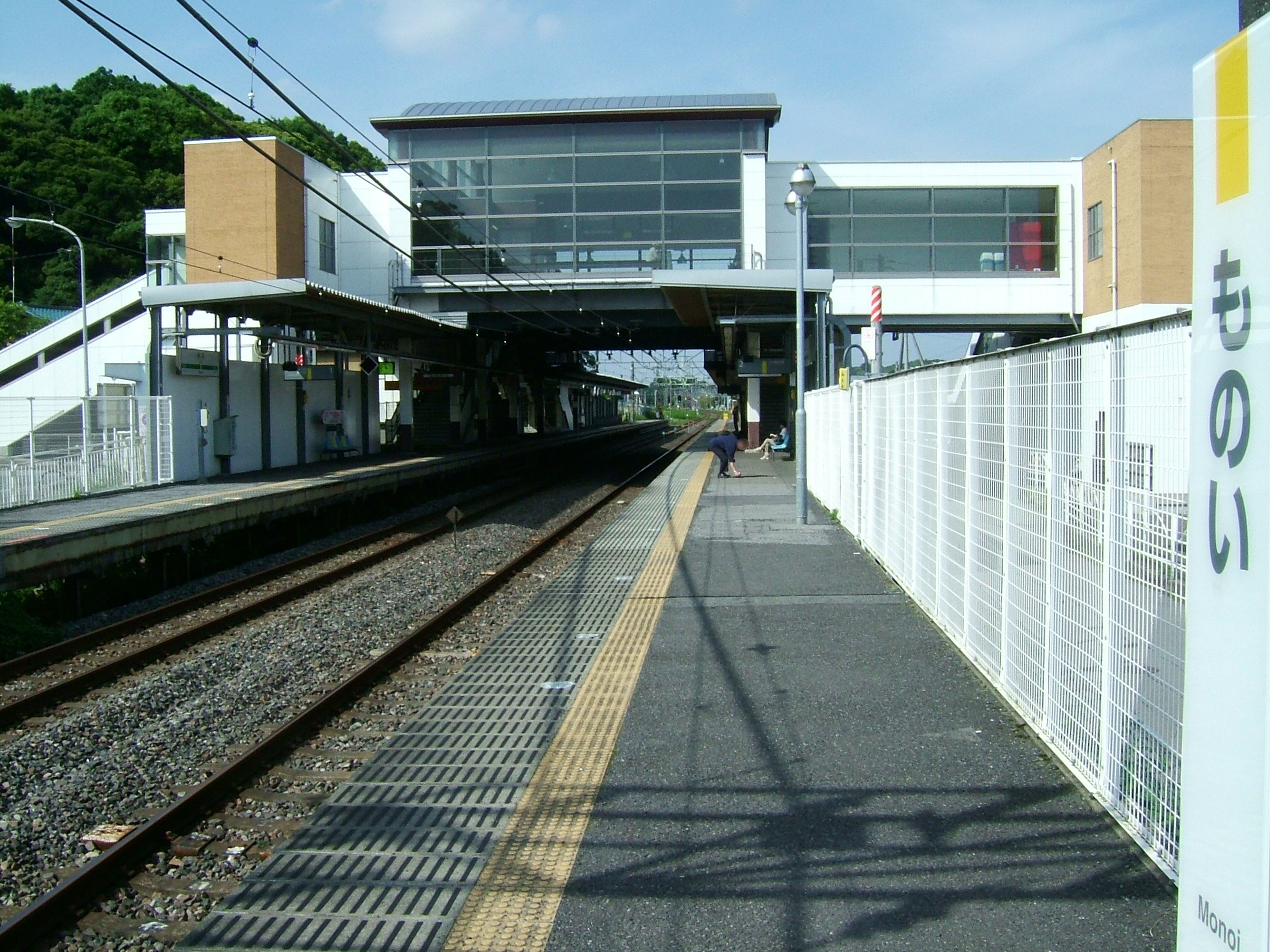 Monoi Station platform (East Japan Railway Sōbu Main Line)